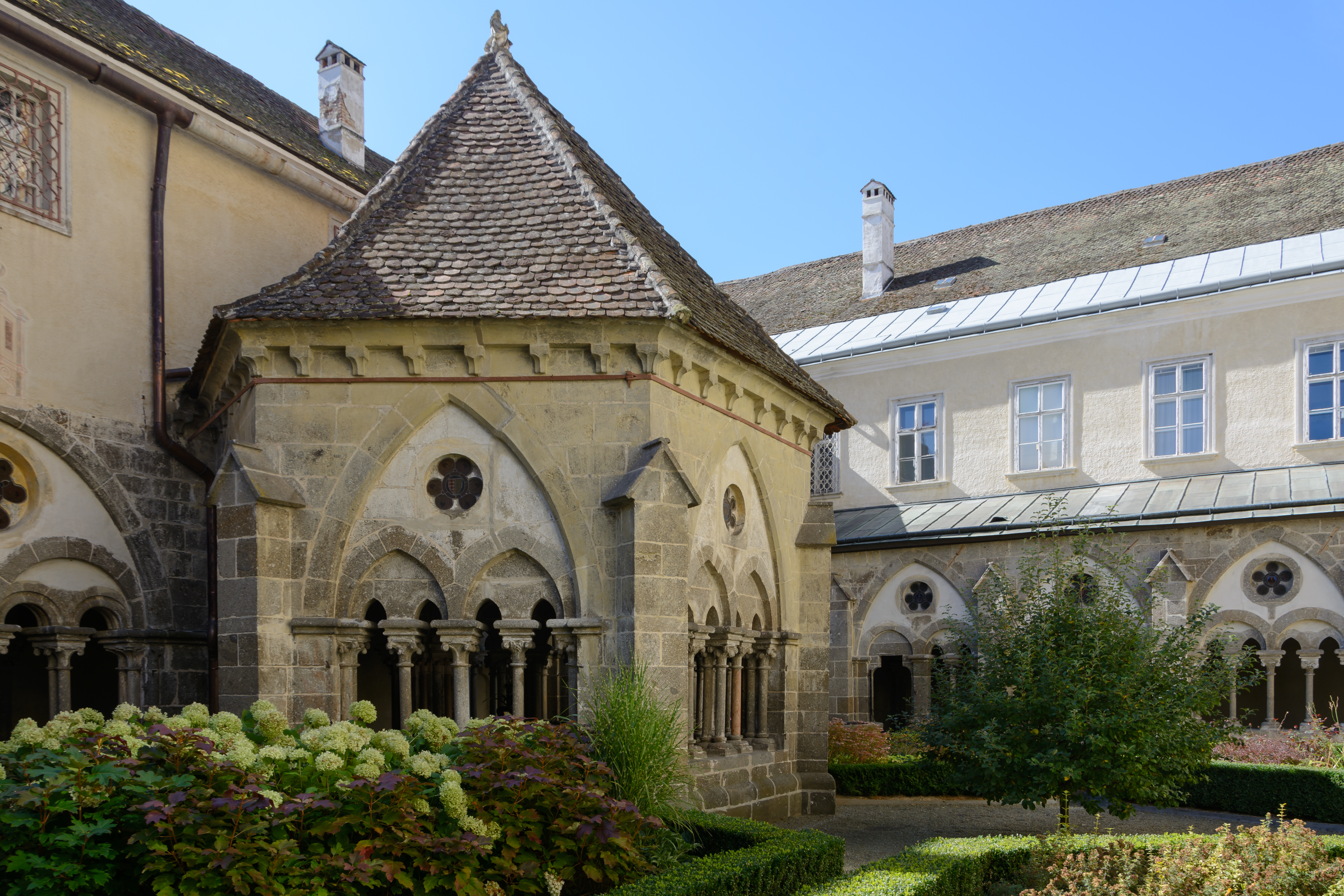 Inner courtyard and lavatorium in the cloister of Zwettl Abbey, Lower Austria